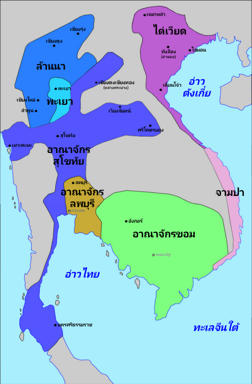 Southeast Asian history - 13th century (Thai language)